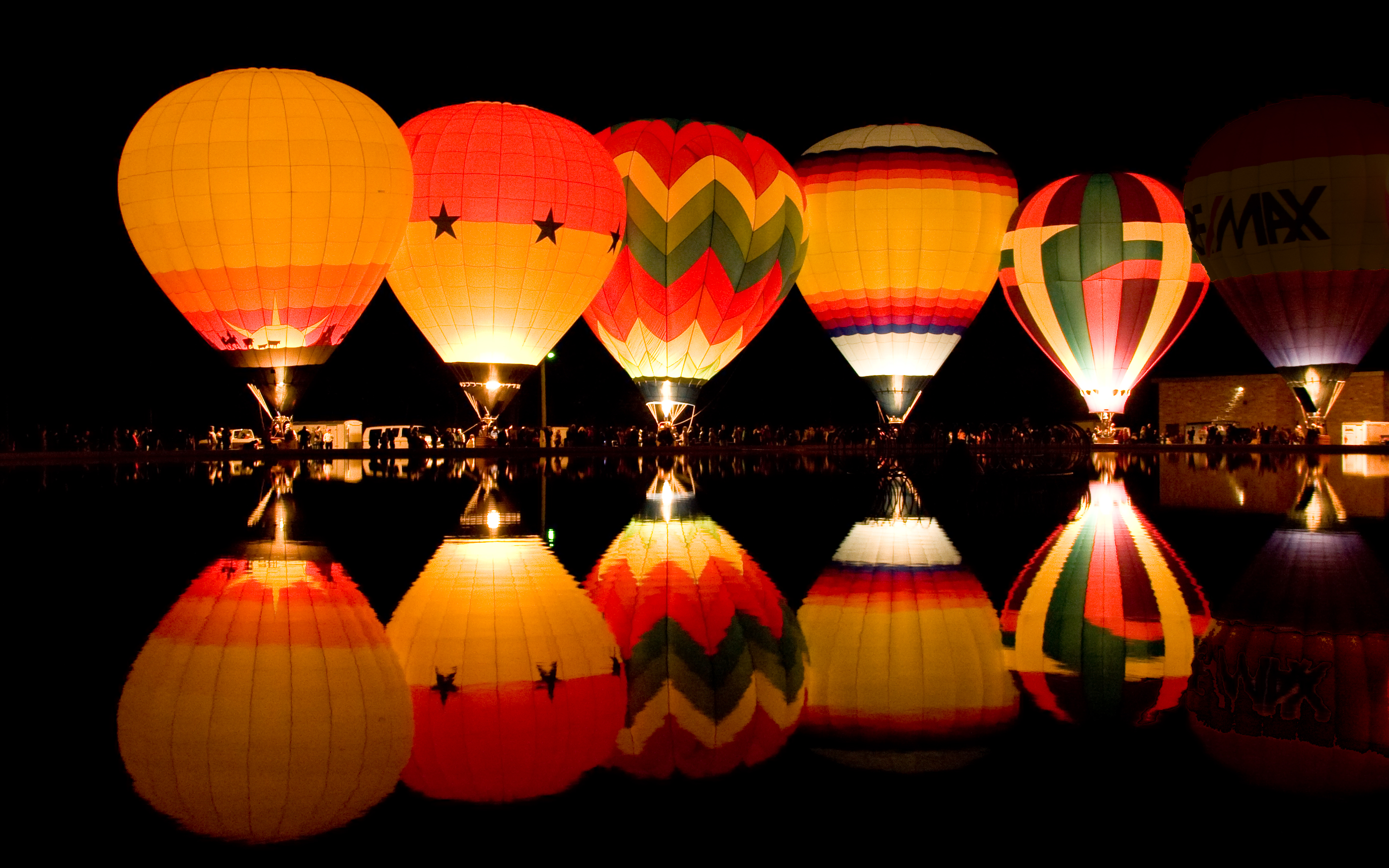 Baluminaria - balloon glow in Eden Park, Cincinnati, OH.